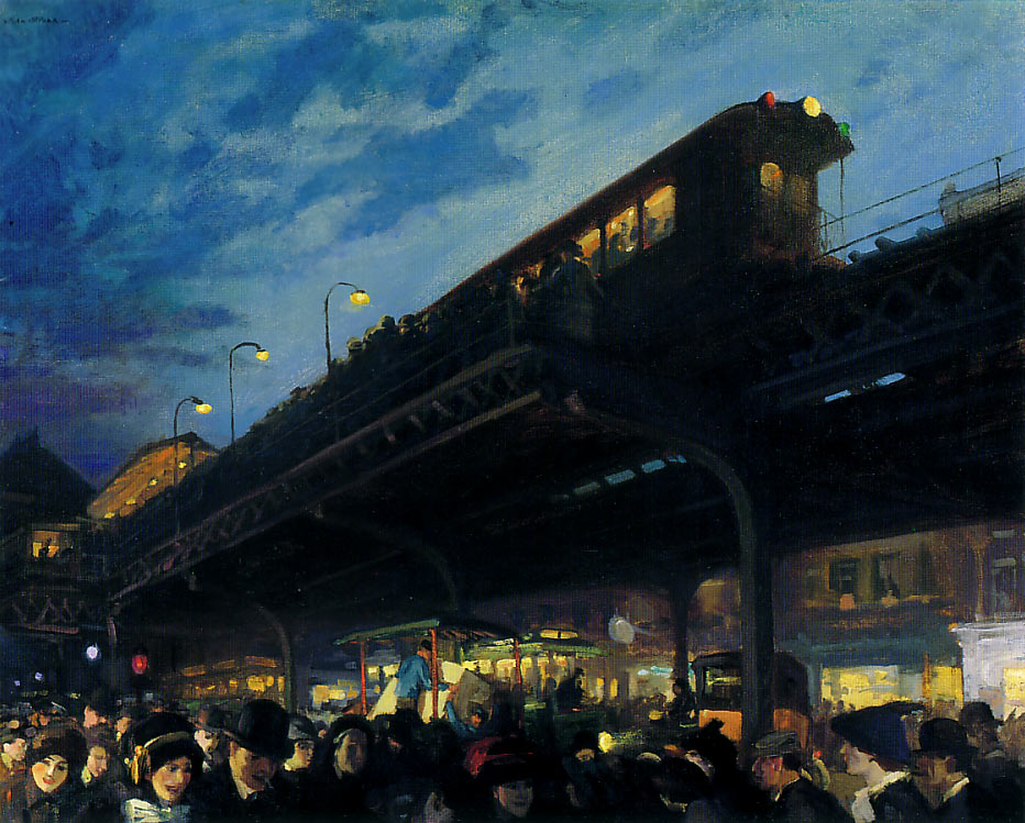 sixoclock, Winter